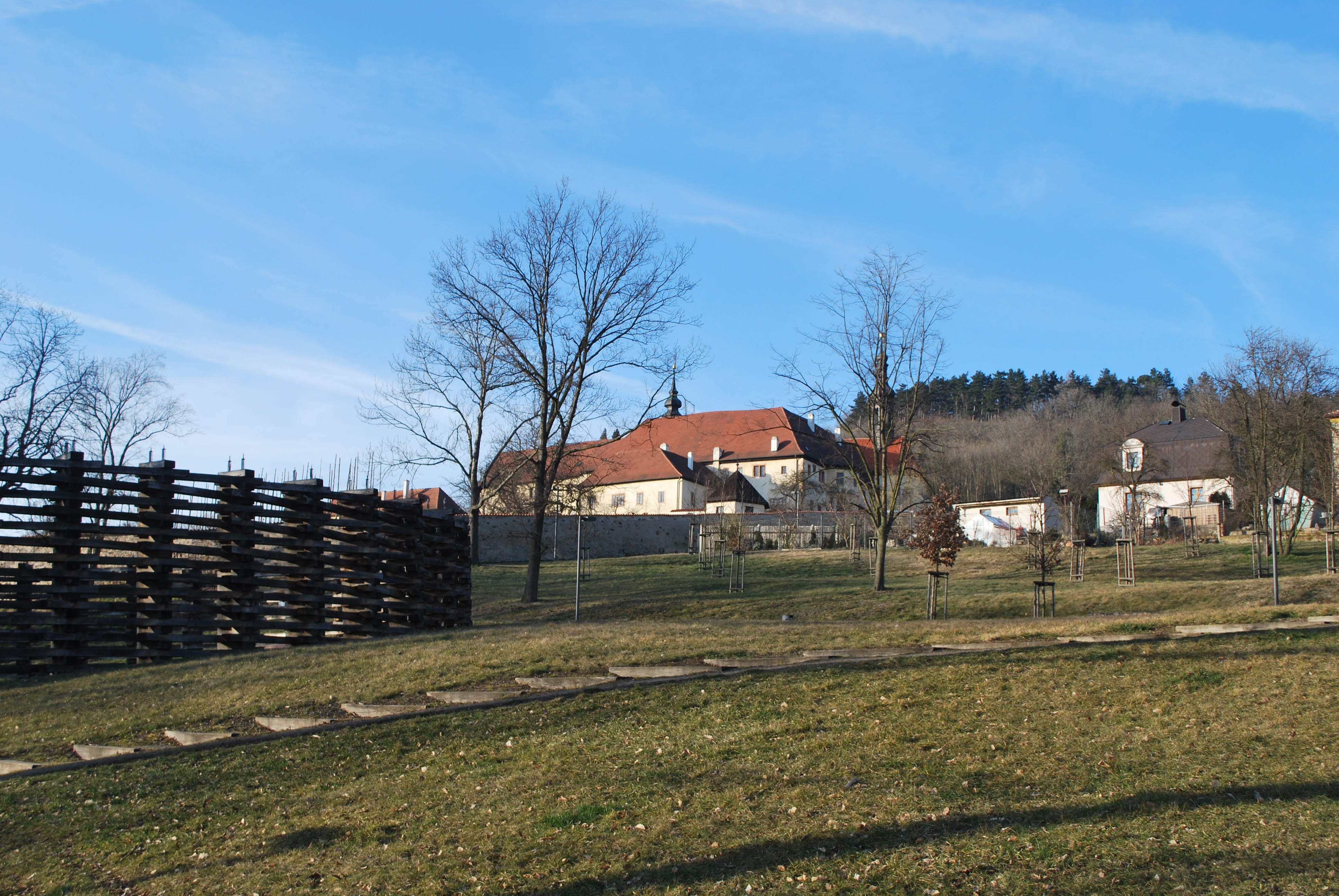 Amfiteátr v Kadani